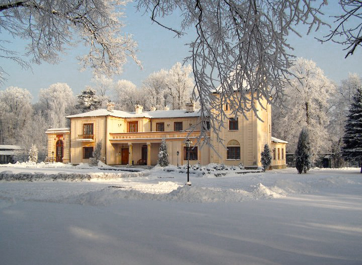 Ostoya Manor in Jasionka Poland